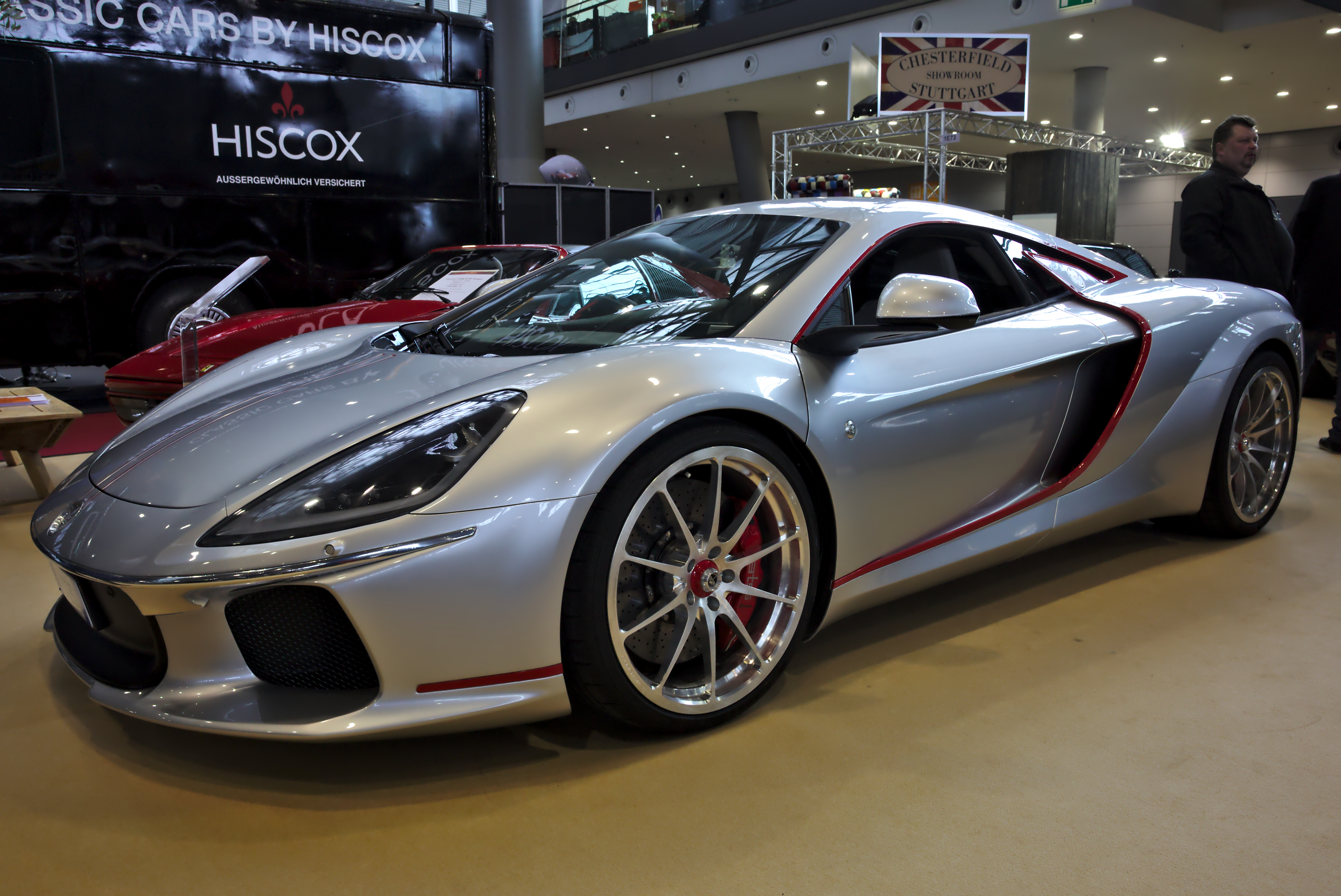 Automobili Turismo e Sport GT at Retro Classics 2018